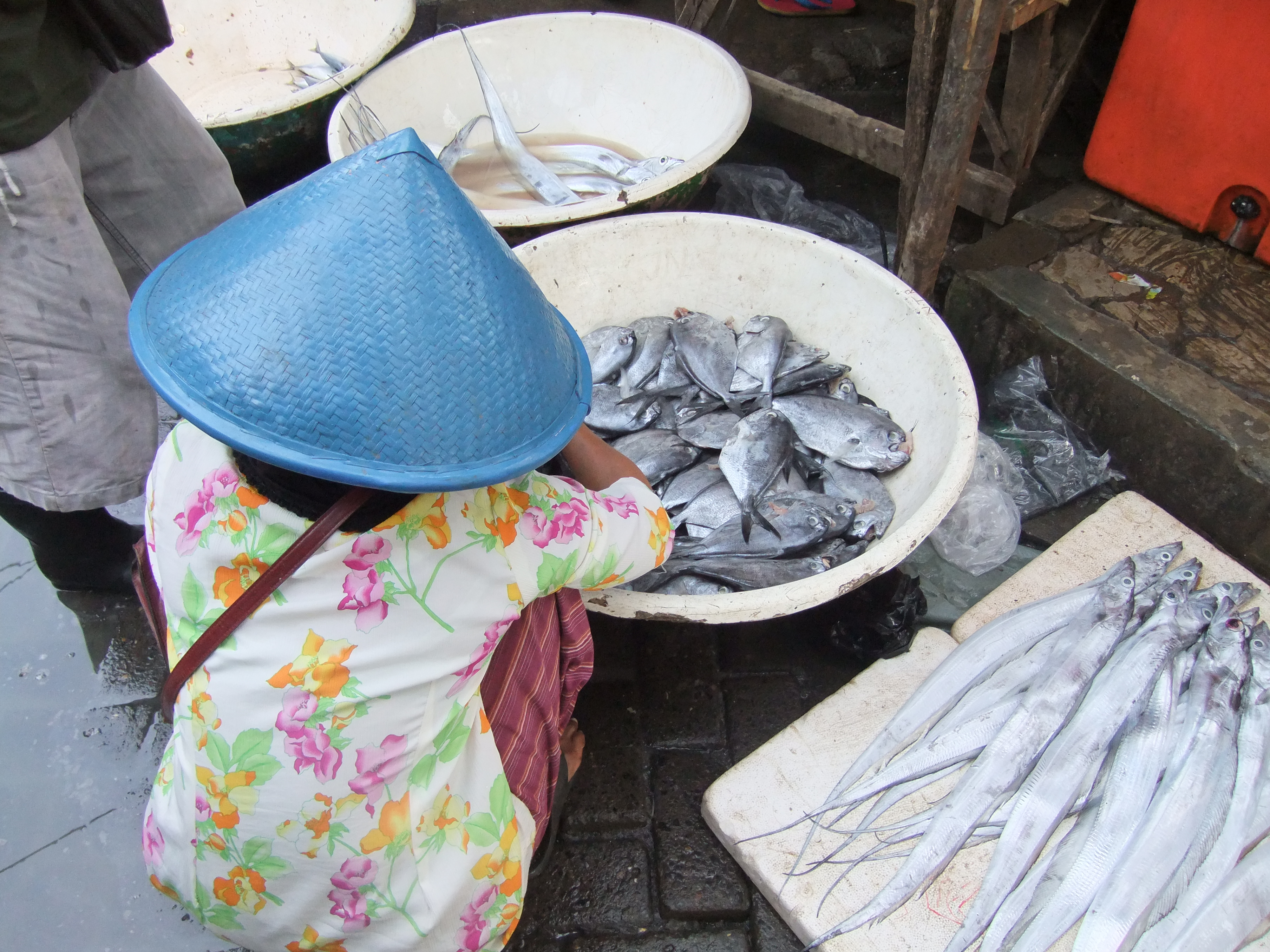 Pelabuhan Ratu fish market, Sukabumi Regency, West Java